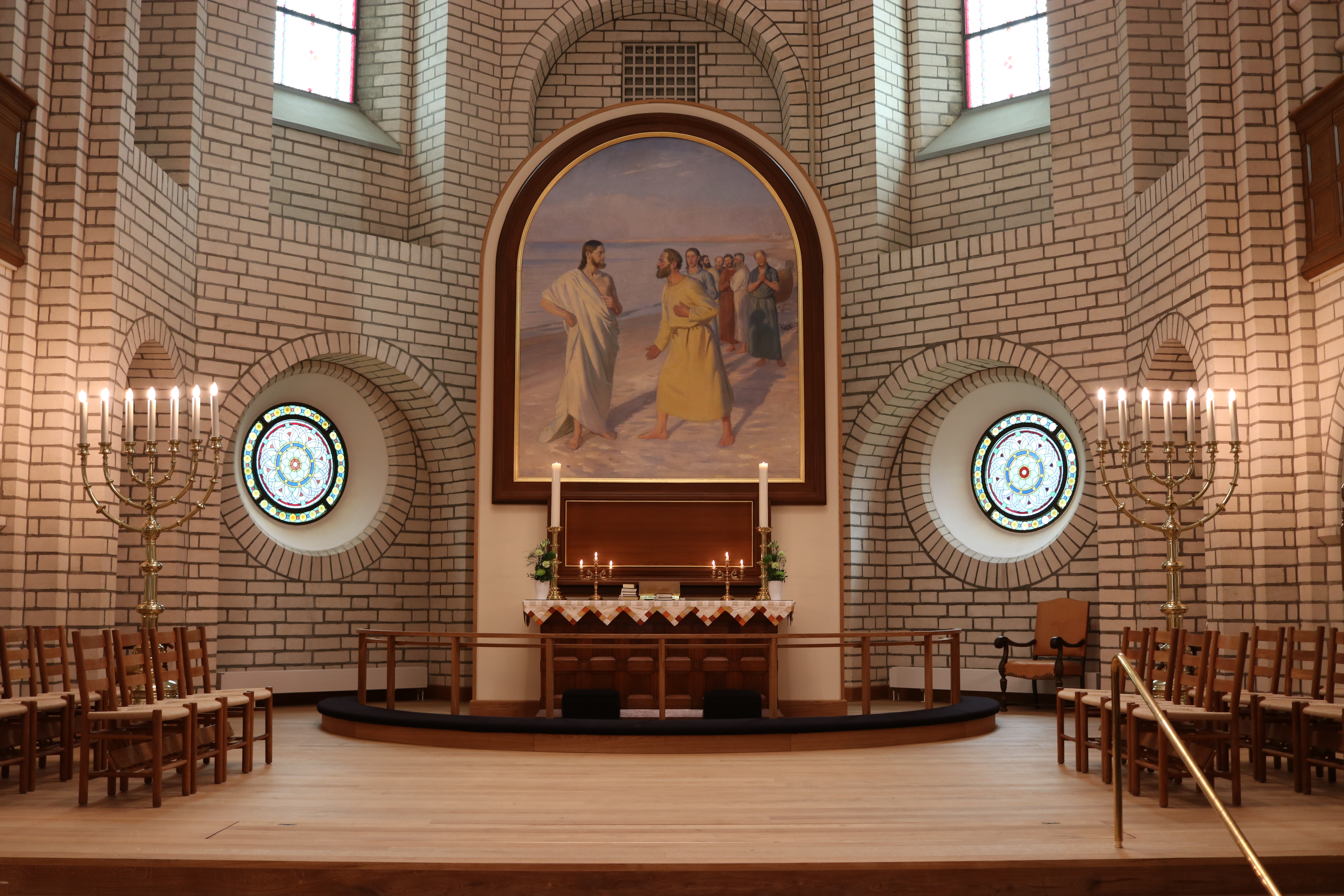 Altarpiece with "Jesus at Tiberias Lake", Frederikshavn Kirke, northern Denmark, after renovation in 2019